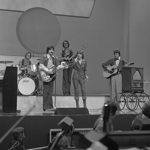 Peter, Sue & Marc at a rehearsal for the Eurovision Song Contest 1976.